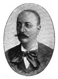 Portrait of Petre P. Carp